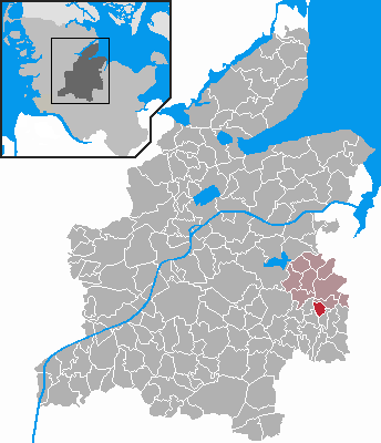 Locator maps of municipalities in Schleswig-Holstein - District Rendsburg-Eckernförde